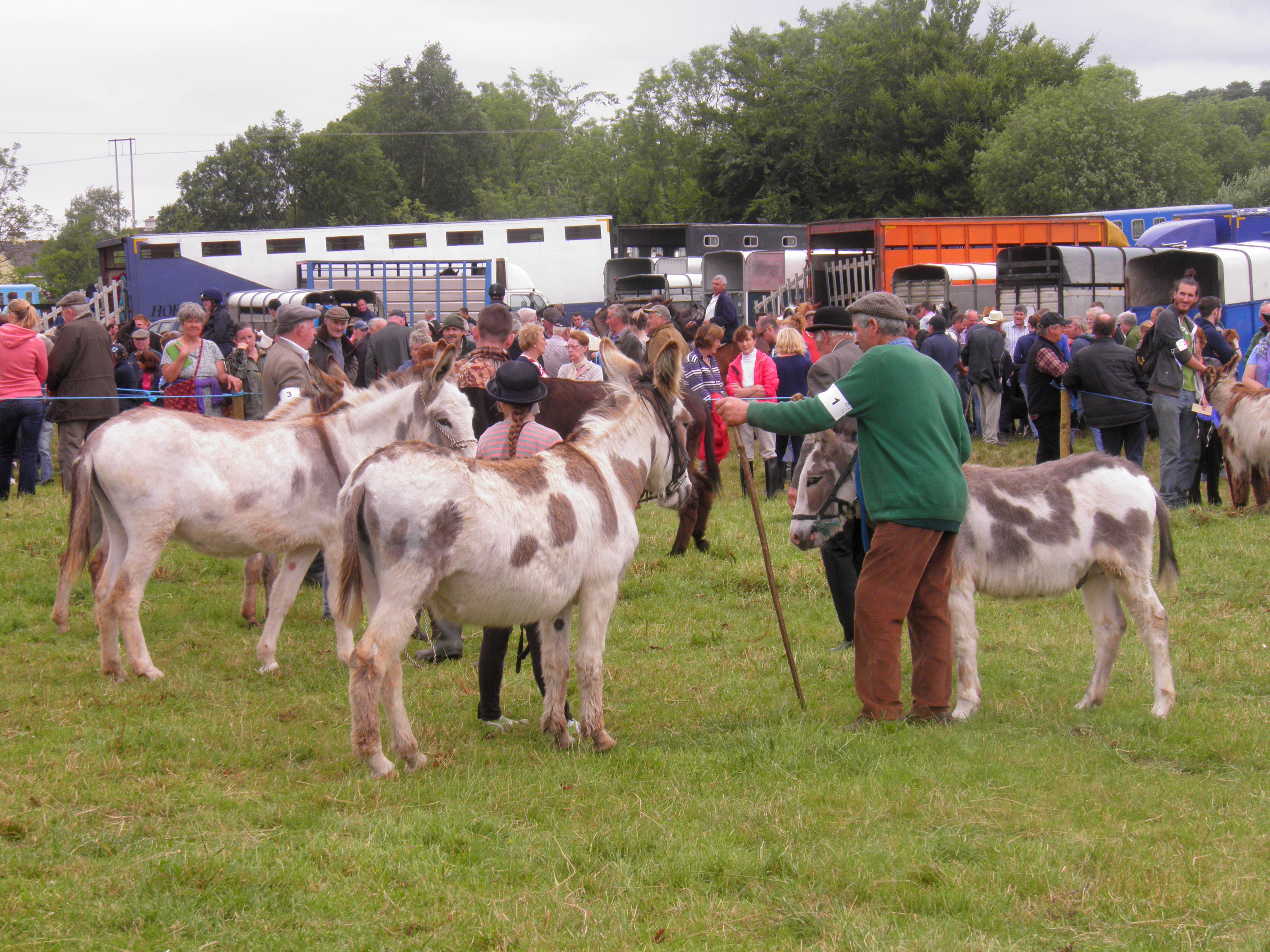 Taken from horse fair at Spancil Hill.